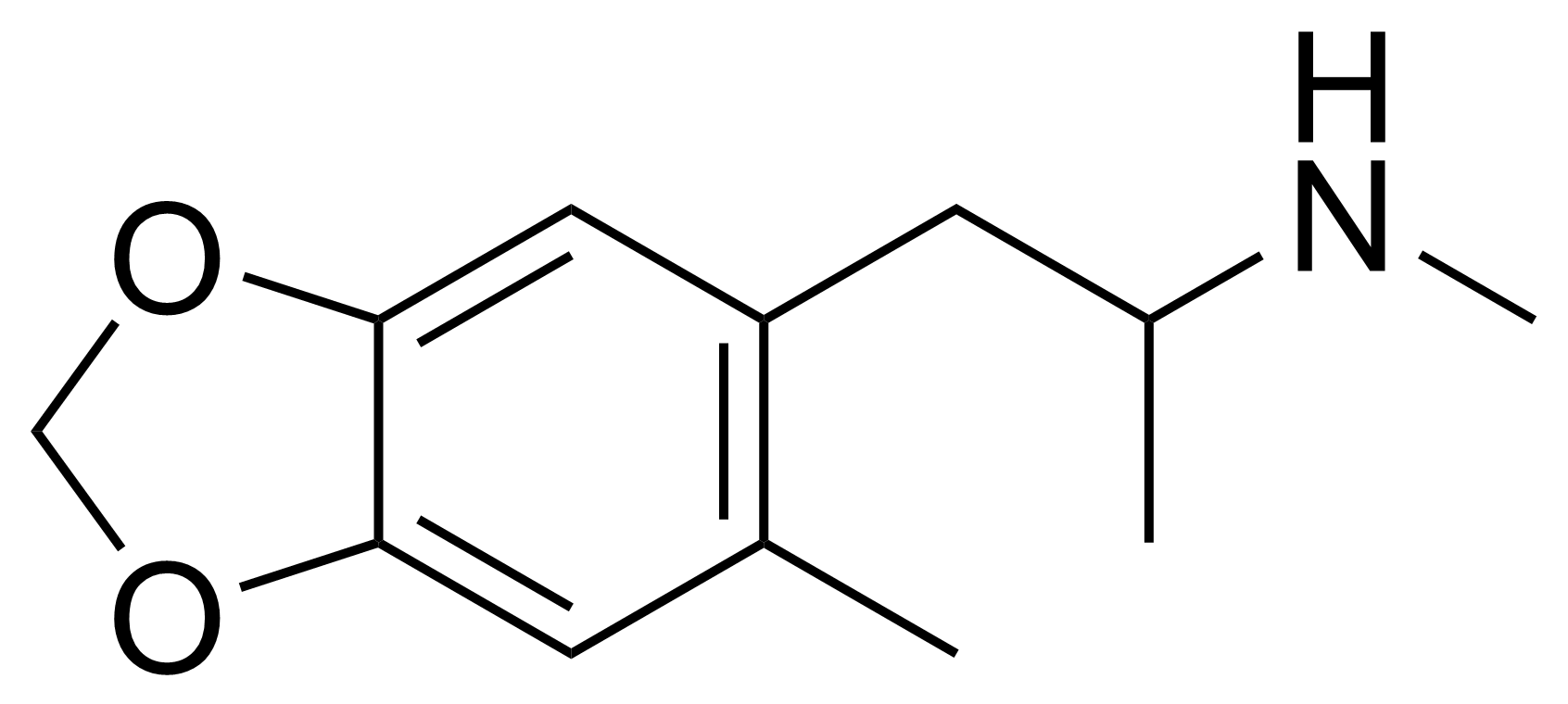 Chemical structure of Madam-6, drawn in ChemDraw